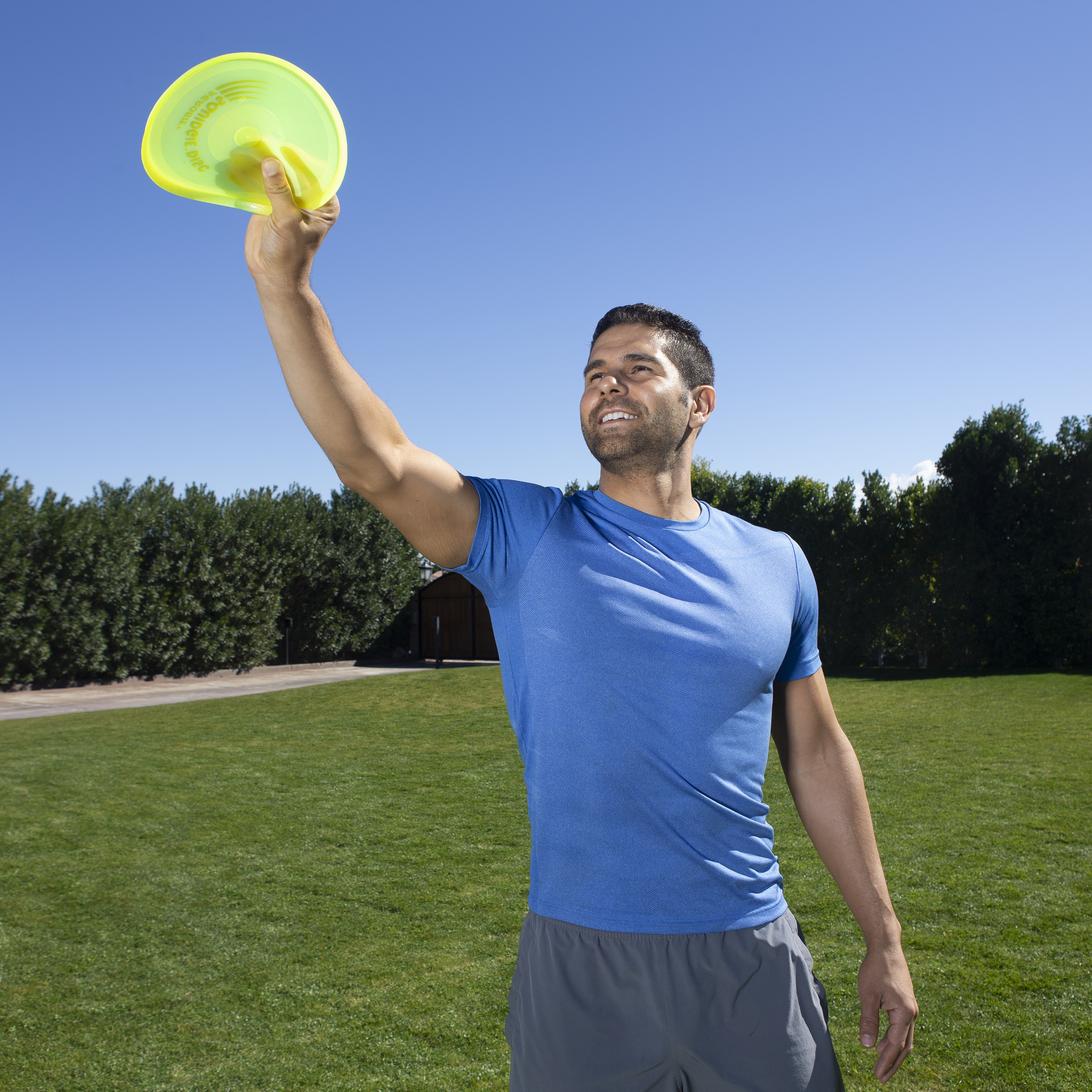 Aerobie Squidgie Disc- Green